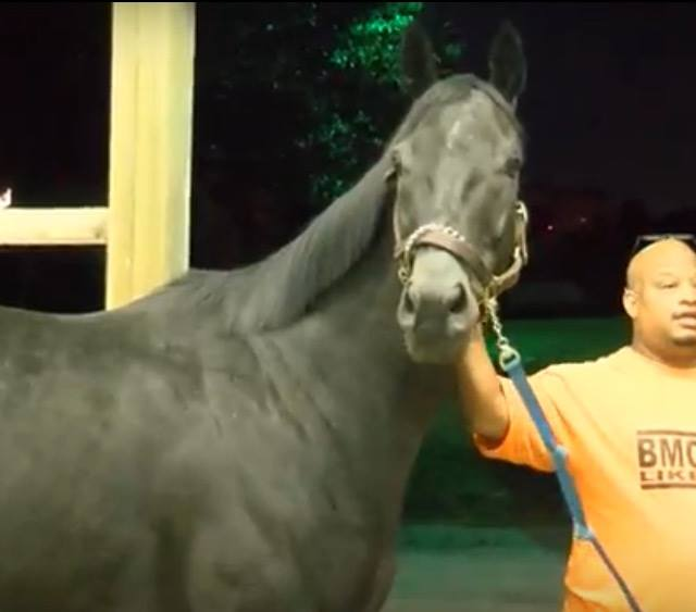 Horse